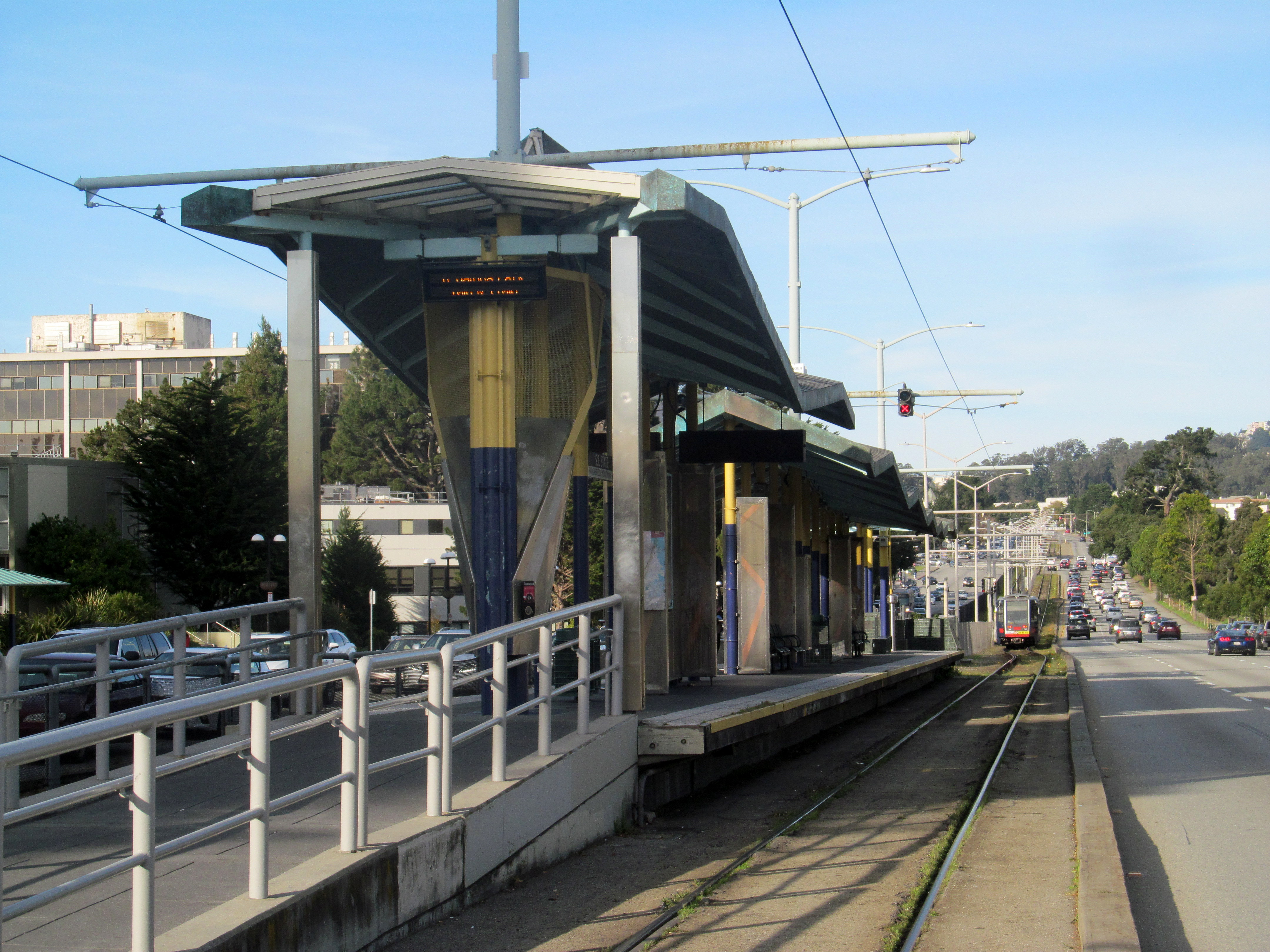 SFSU station in December 2017